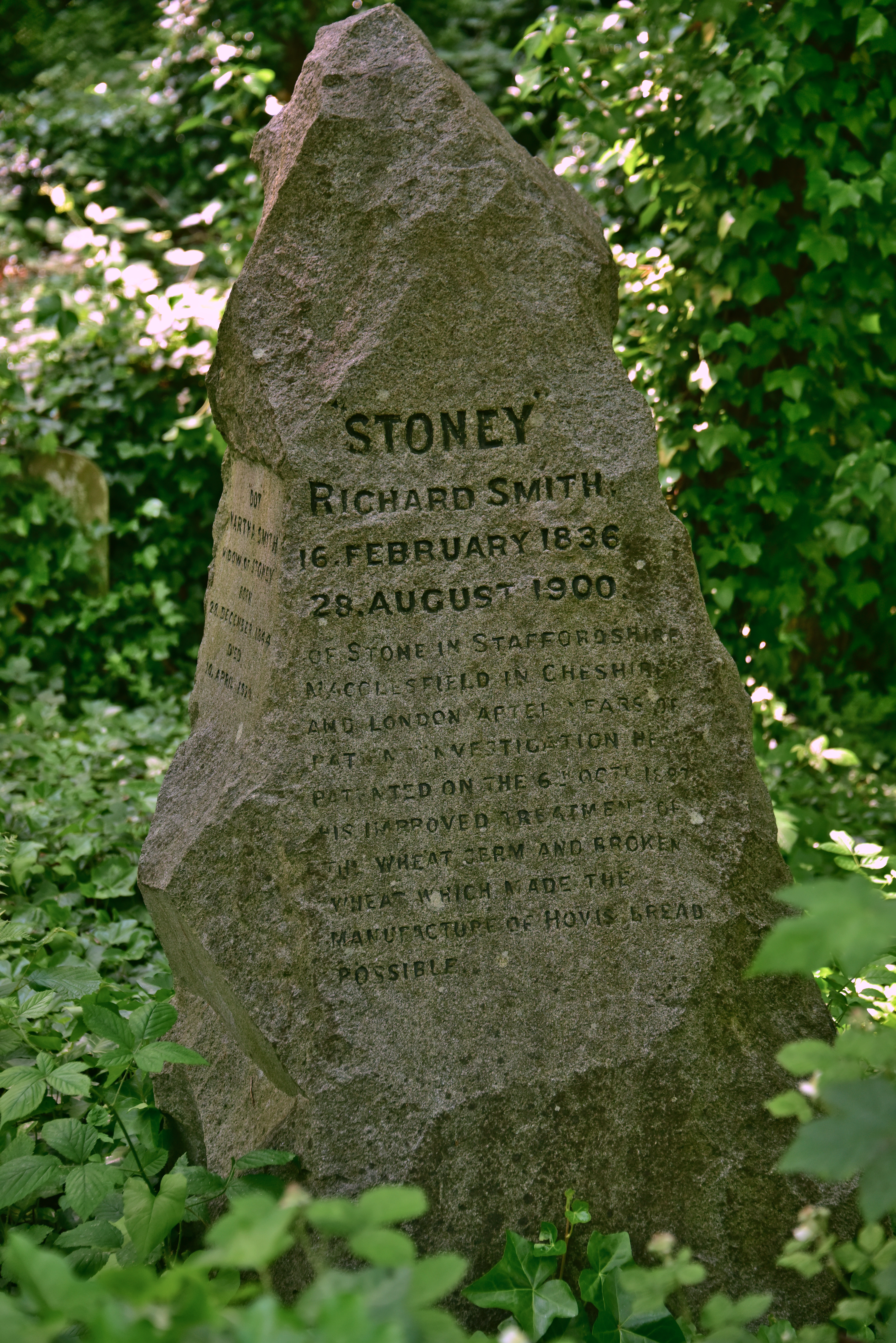 The grave of Richard "Stoney" Smith, an inventor who invented an improved flour-milling process leading to the mass-production of Hovis bread, in Highgate Cemetery, London.